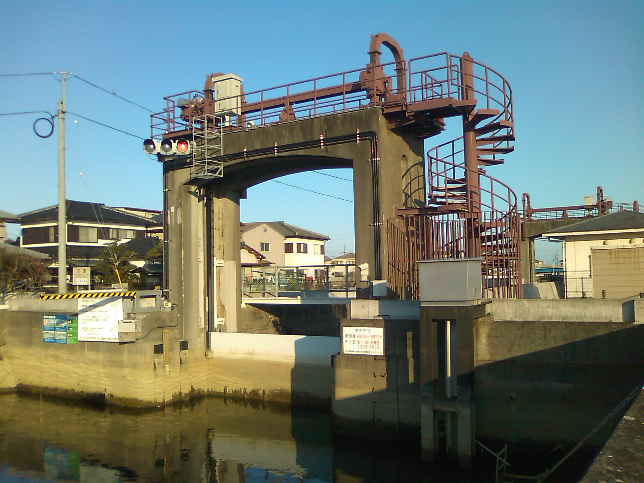 Nabe River Lock, Japan